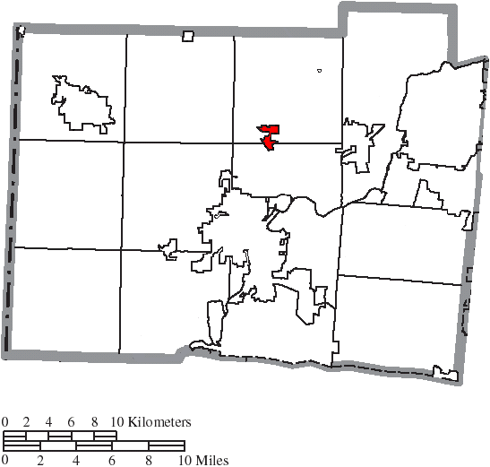 Map of the municipal and township boundaries of Butler County, Ohio, United States, as of the 2000 census, with the location of the village of Seven Mile highlighted. Township borders are shown only in unincorporated areas in order to differentiate incorporated and unincorporated areas more clearly.